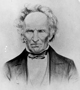 Lemuel Bolles, builder of the first private gristmill in Minnesota